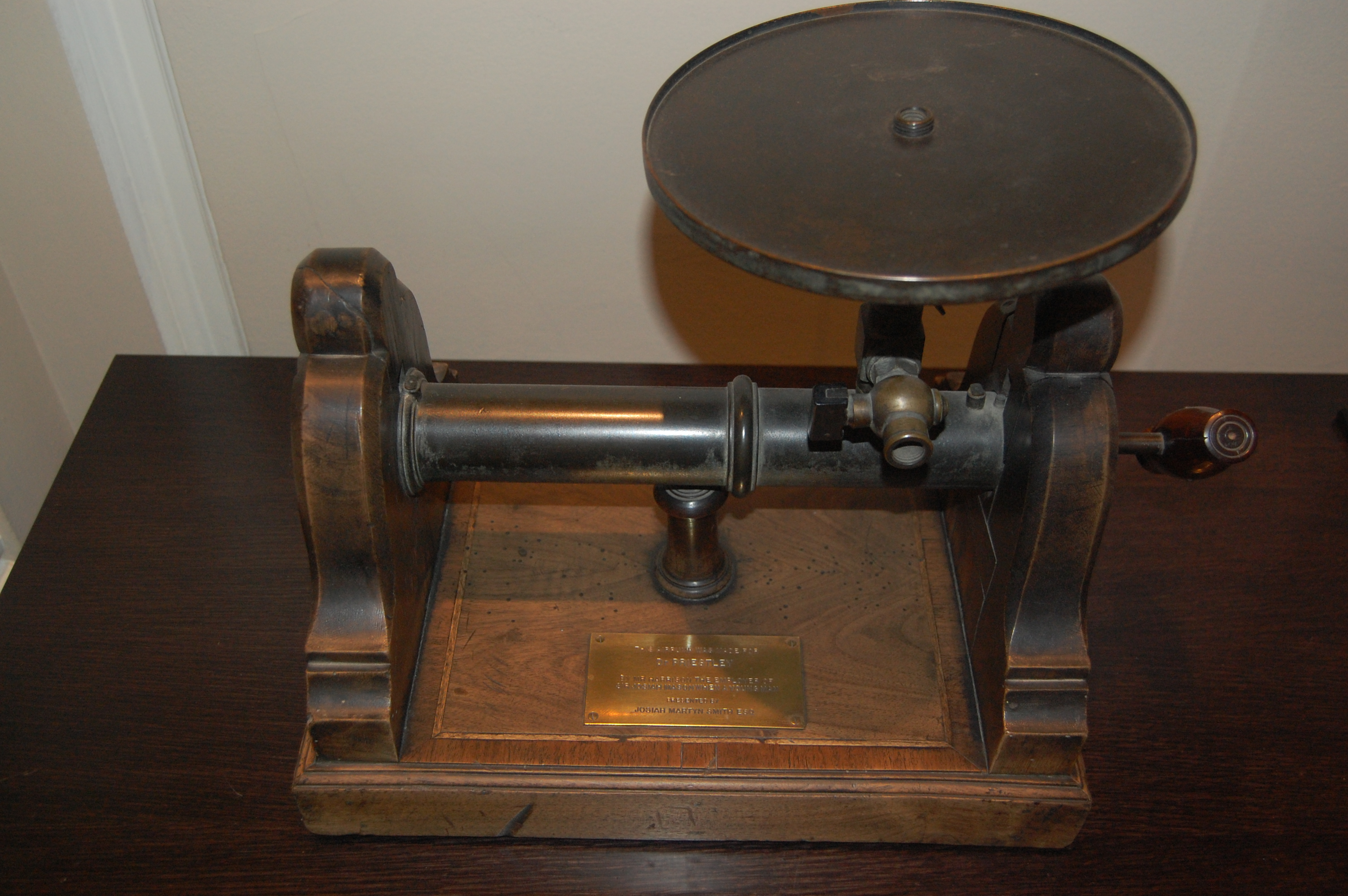 Royal Society of Chemistry headquarters, Burlington House , London, England.